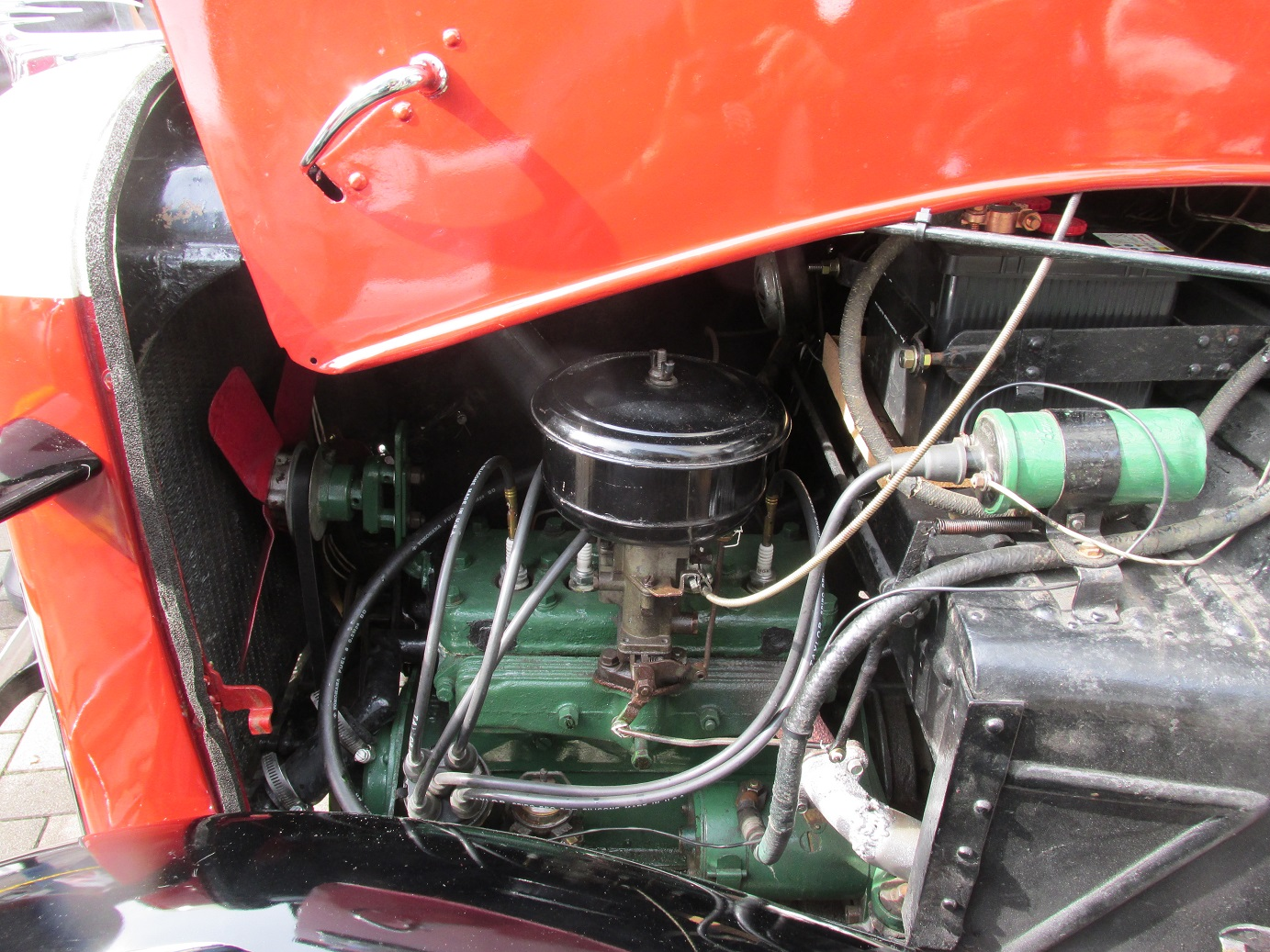 1936 Ohta Type N-7 engine